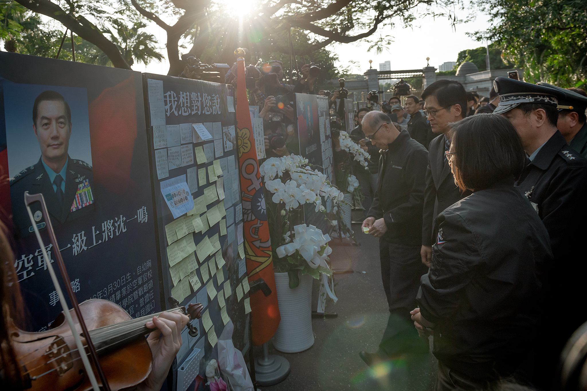 Official Photo by Makoto Lin / Office of the President